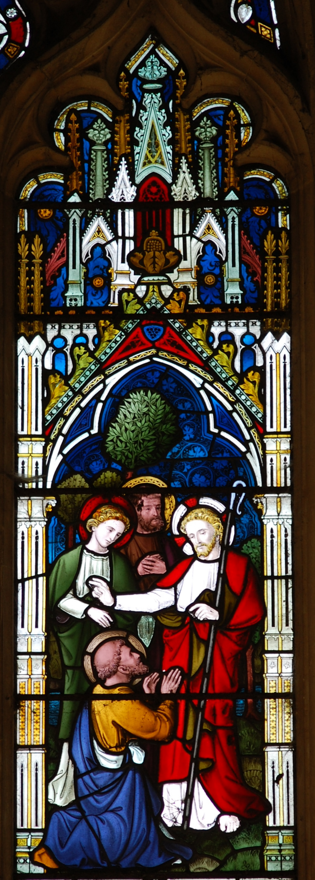 Detail from stained glass in the church of St Mary and St Lambert in Stonham Aspal in Suffolk